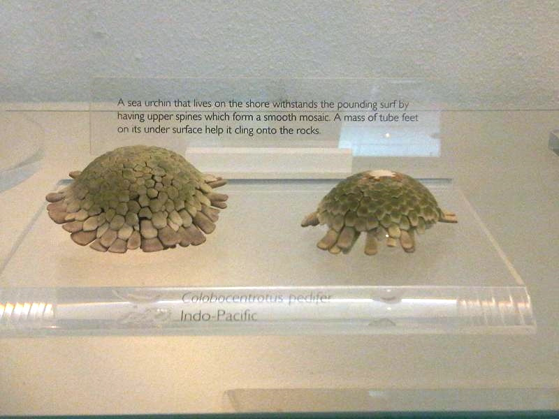 Colobocentrotus pedifer at the Natural History Museum in London, England.